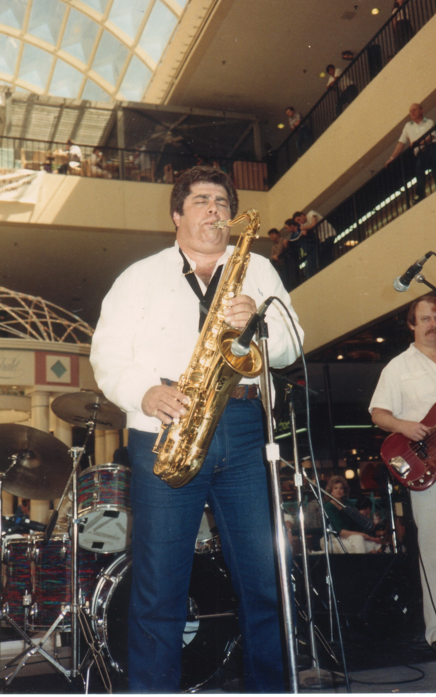 Marty performing at the Gallaria Houston in Mid 1990's